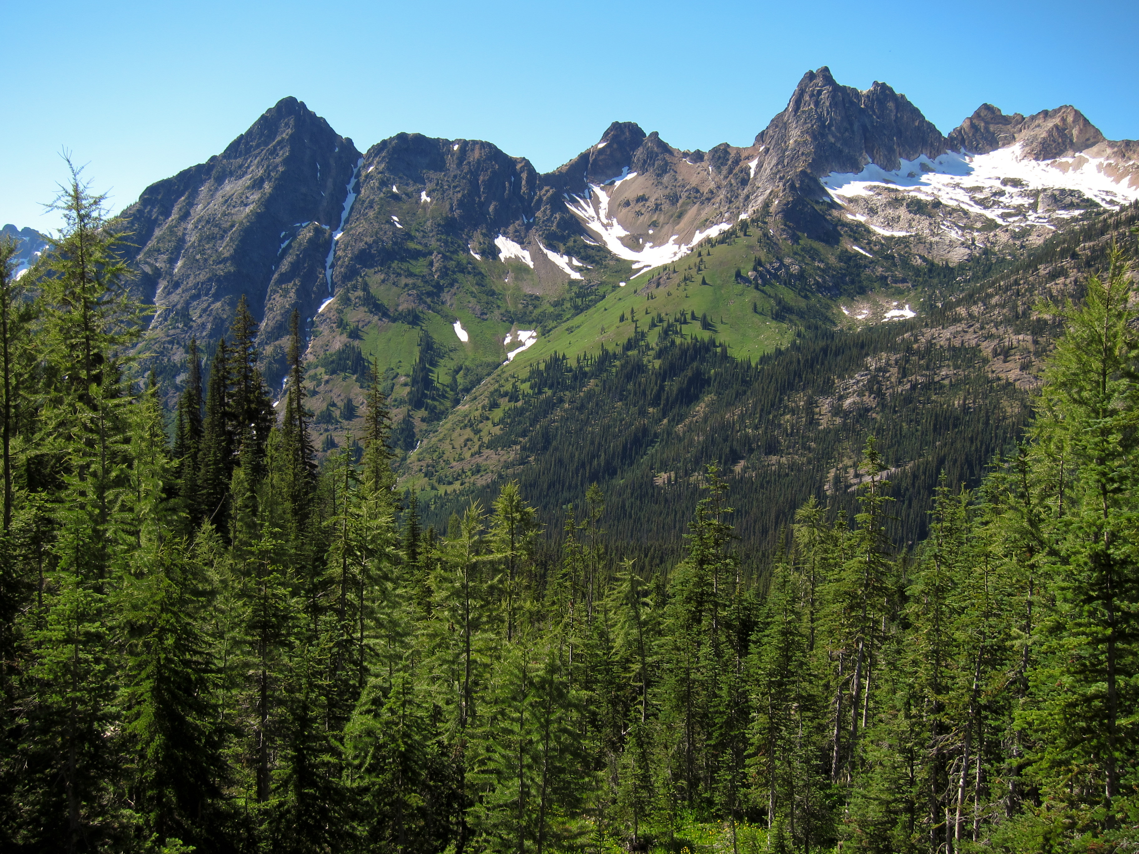 The Cascade Mountains taken from Okanogan National Forest.